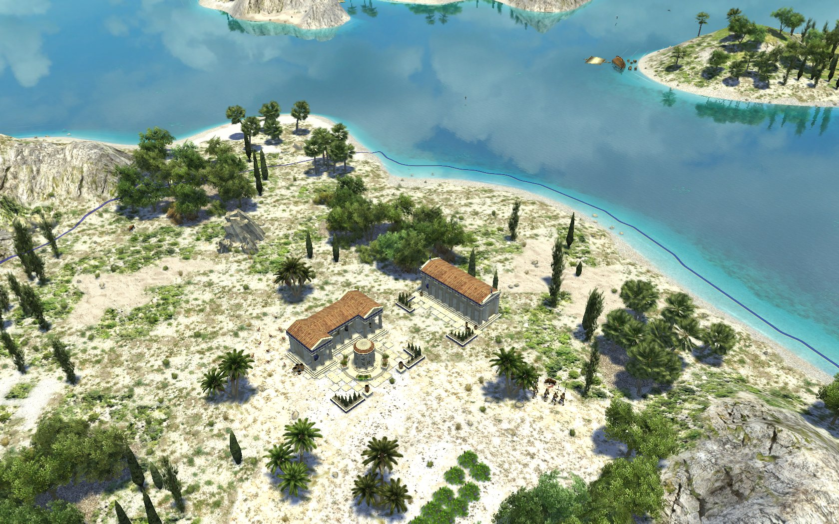 Screenshot of Cycladic Archipelago island map